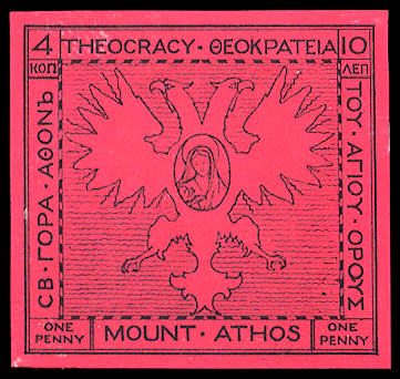 Postage stamp prepared, but not issued by HMS 'Ark Royal' for Mount Athos, Ottoman empire, january 1916, 1 penny.